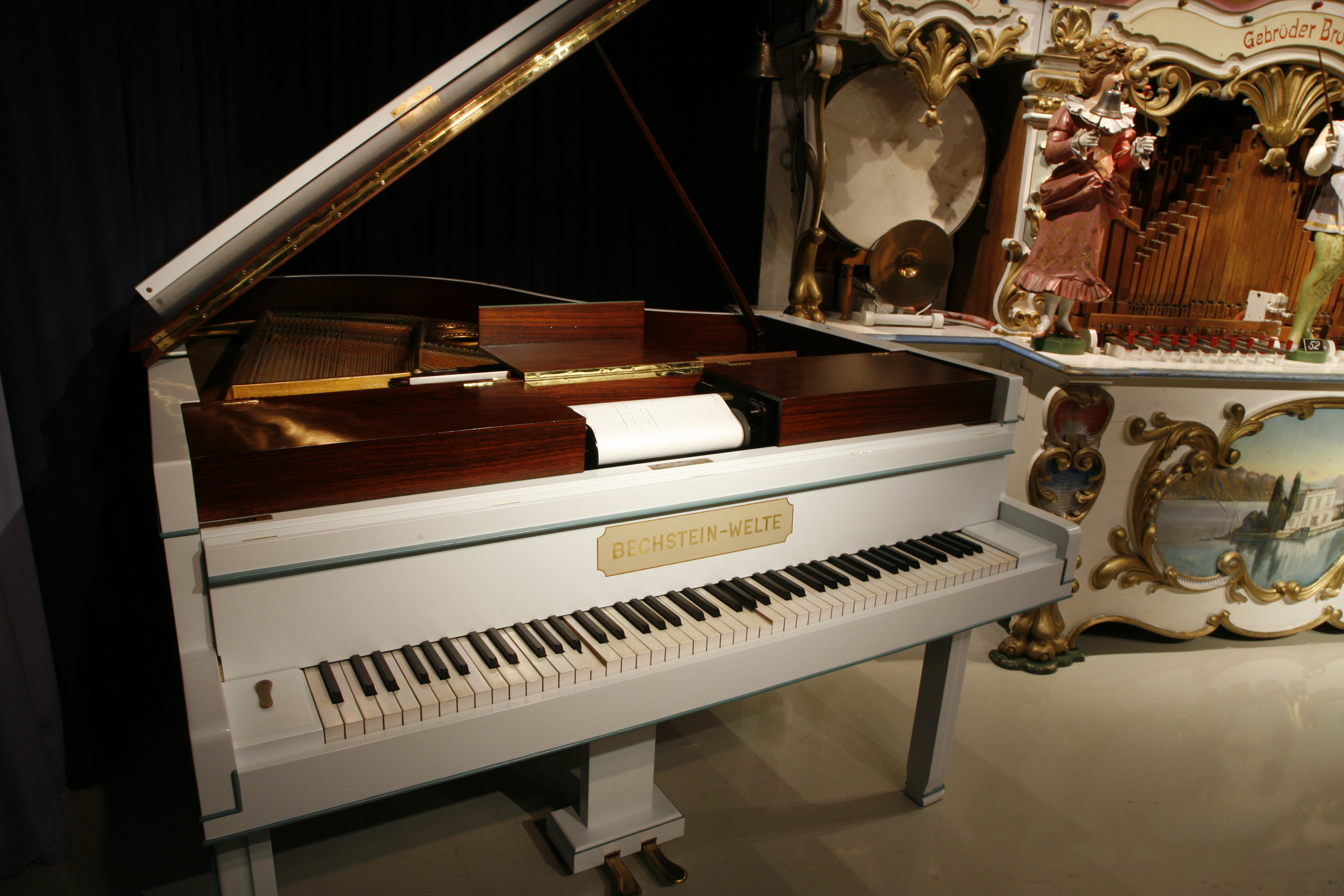 Musée Baud